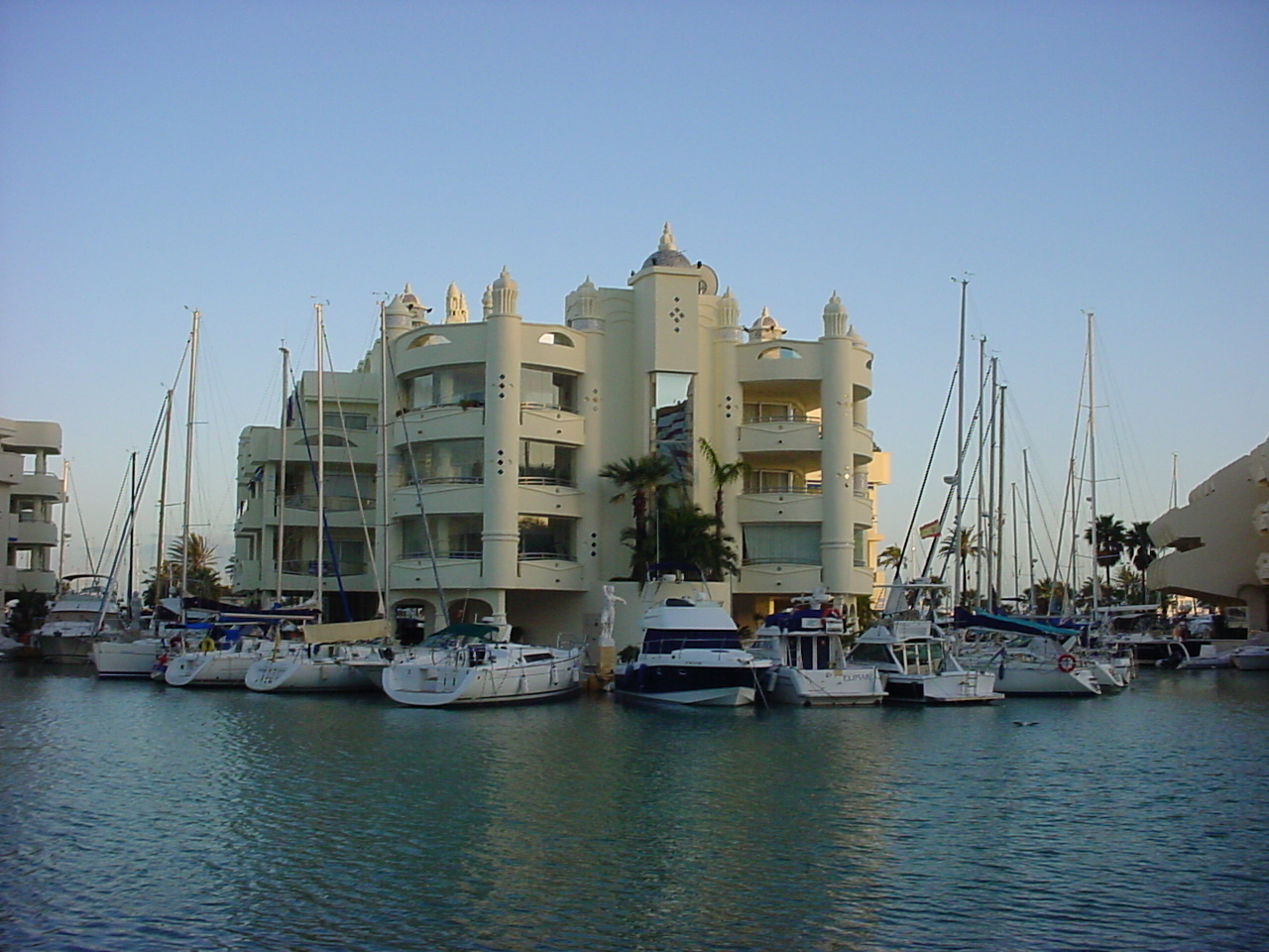 Puerto Marina in Benalmádena, Costa del Sol, Spain